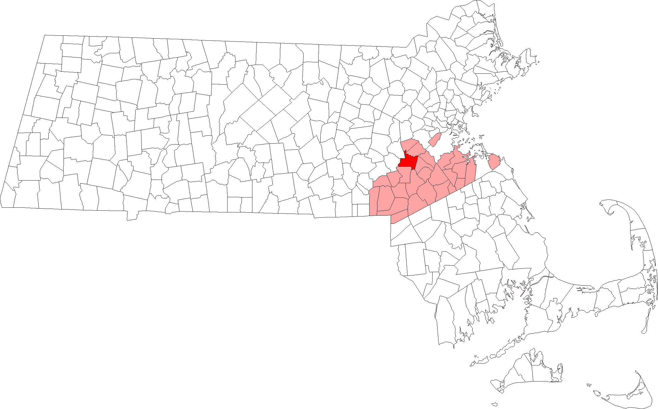 Location of Dover in Norfolk County, Massachusetts